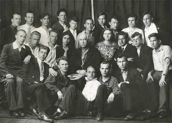 Moscow art college by 1905 year